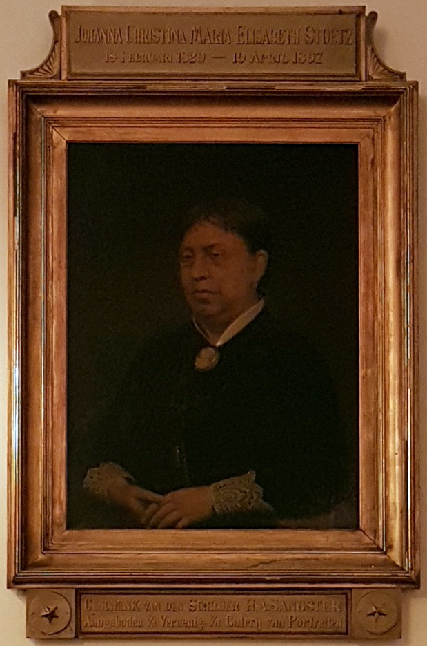 Portrait of the Dutch opera singer and actress Christine Stoetz (1829-97) by H Sangster (1899).